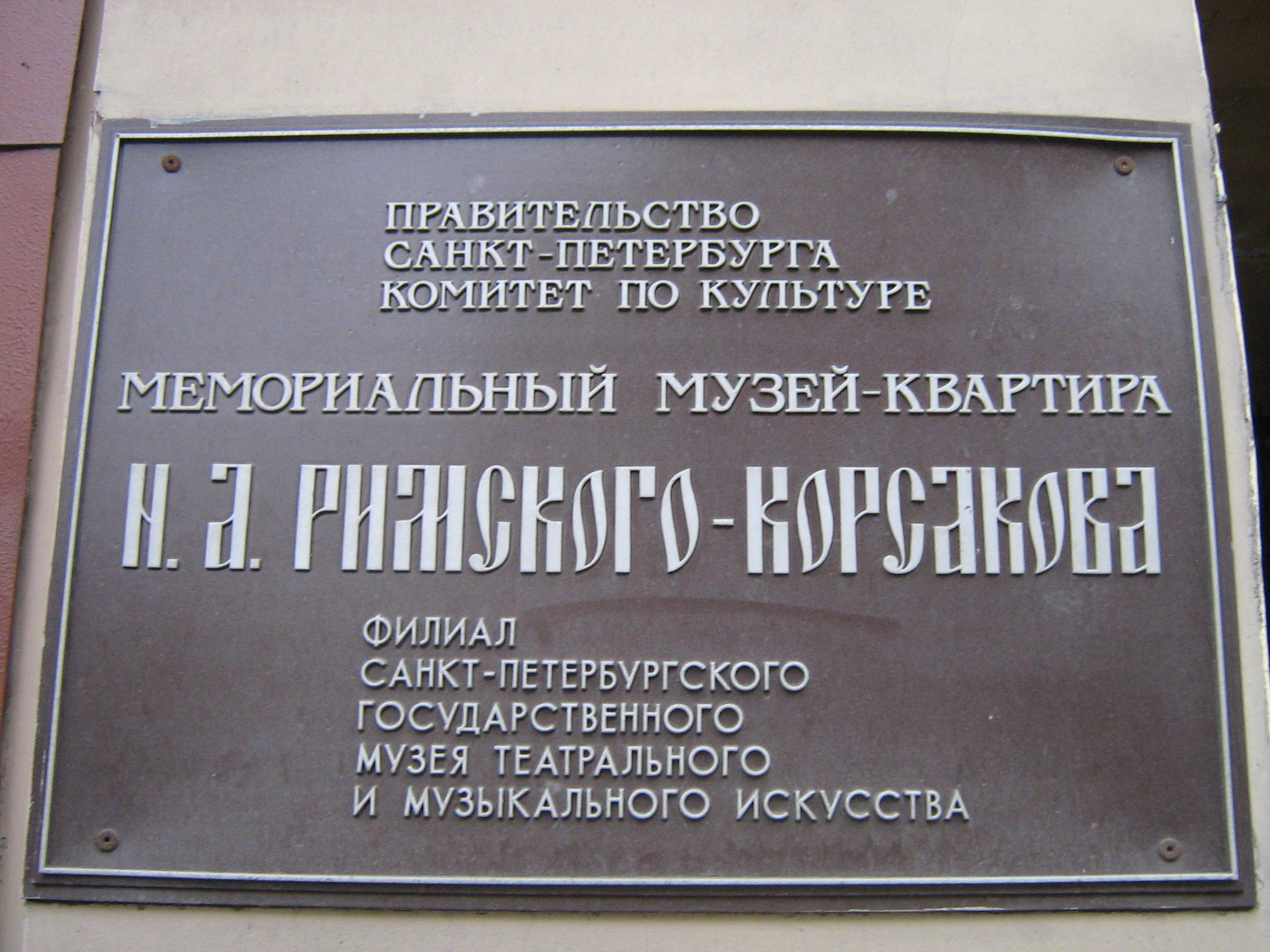 Saint Petersburg (Russia), Tsentralny District